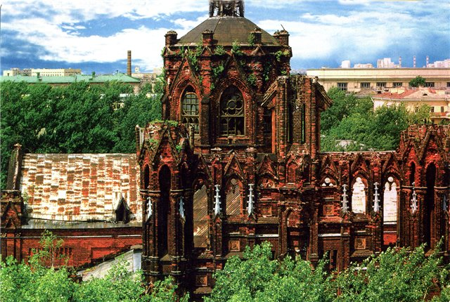 Cathedral of the Immaculate Conception of the Holy Virgin Mary, Moscow. Decay before renovation.